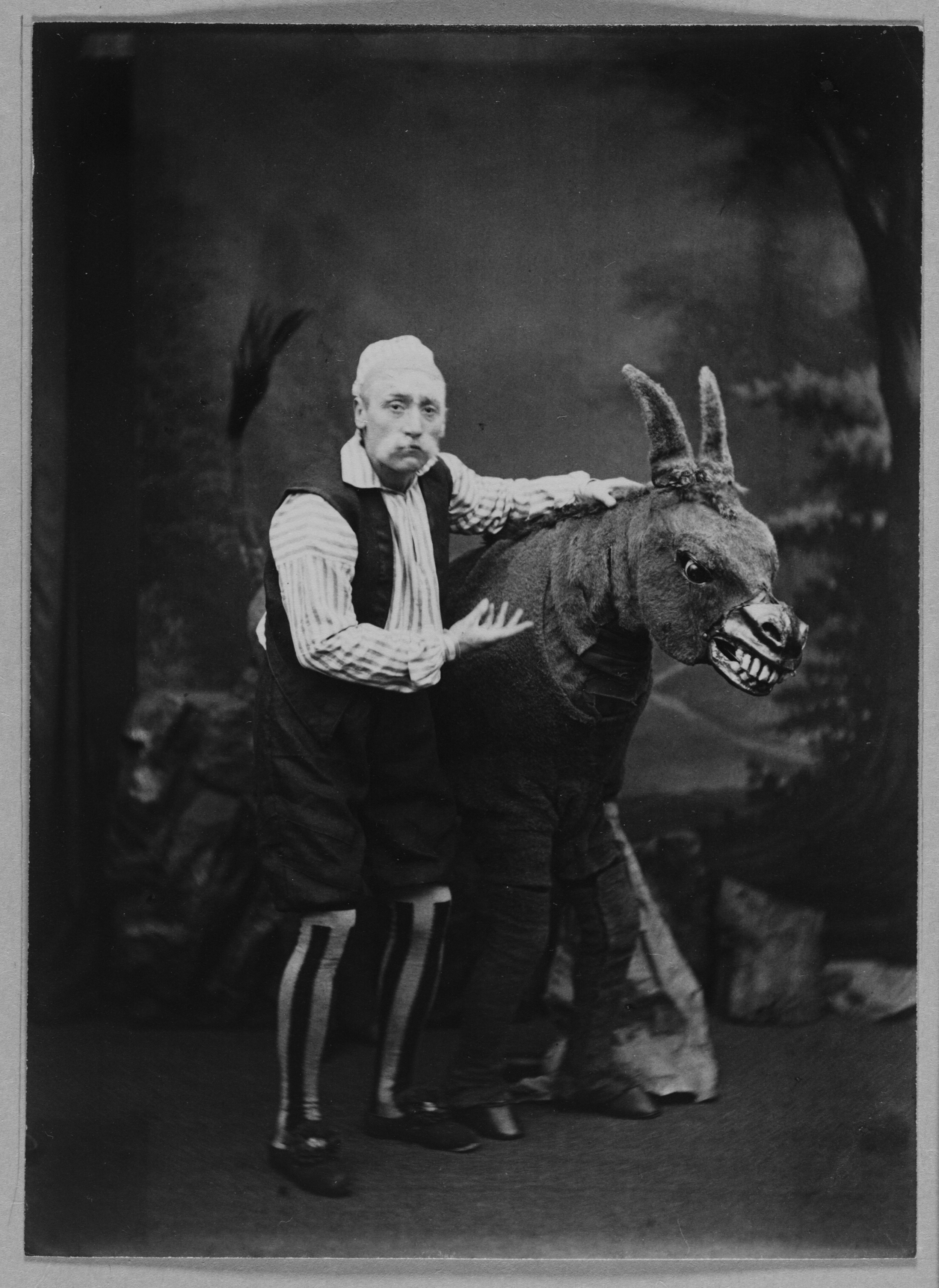 Actor with pantomine horse.